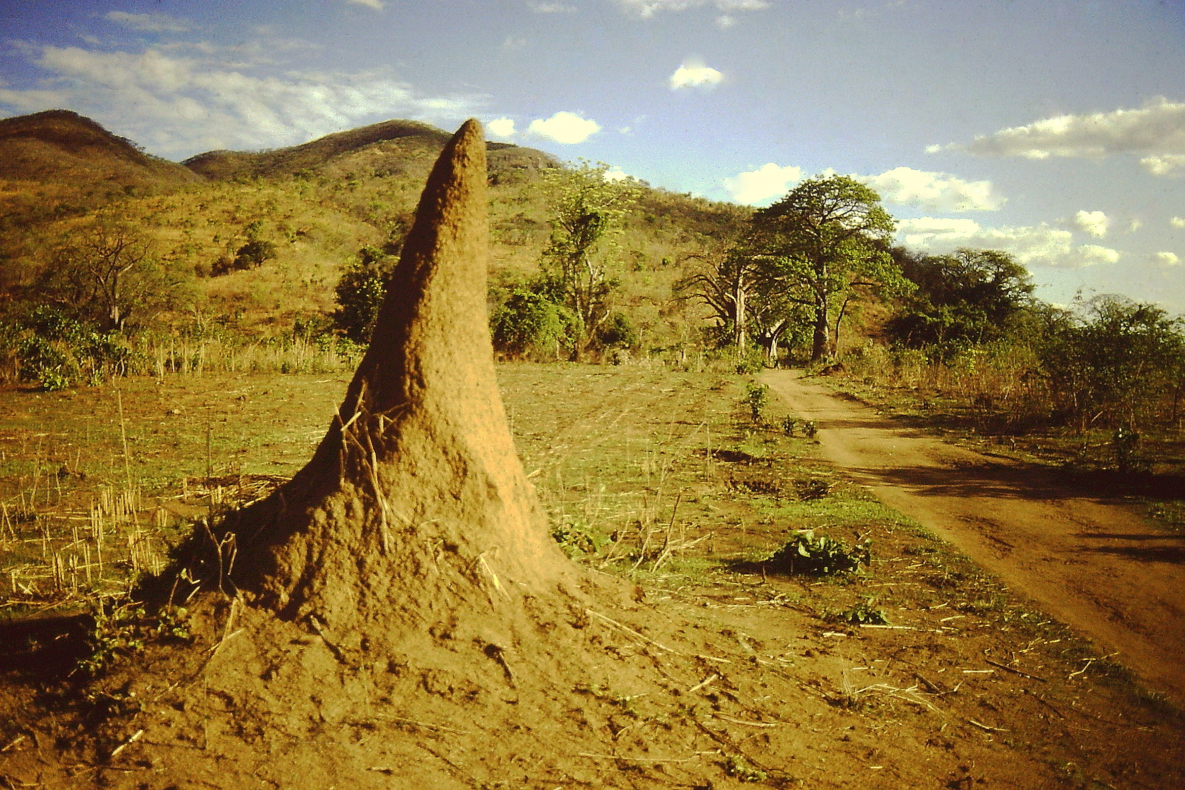 Termite mound in Chiuanga on the Mozambican shore of Nyassa lake